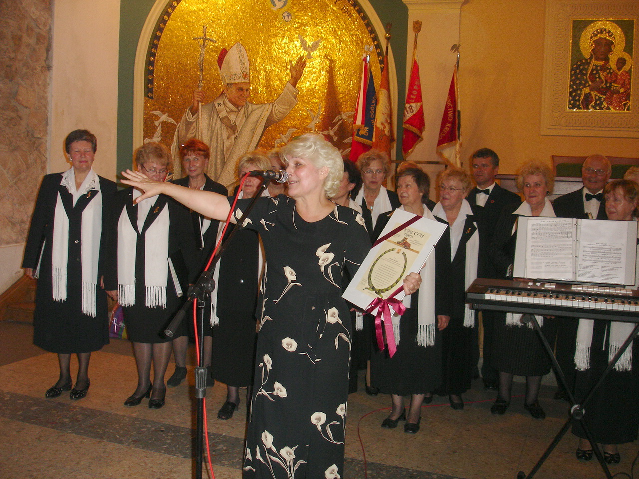 Mrs Danuta Skalska and "Gloria Dei" Chorale. 2008 Częstochowa.